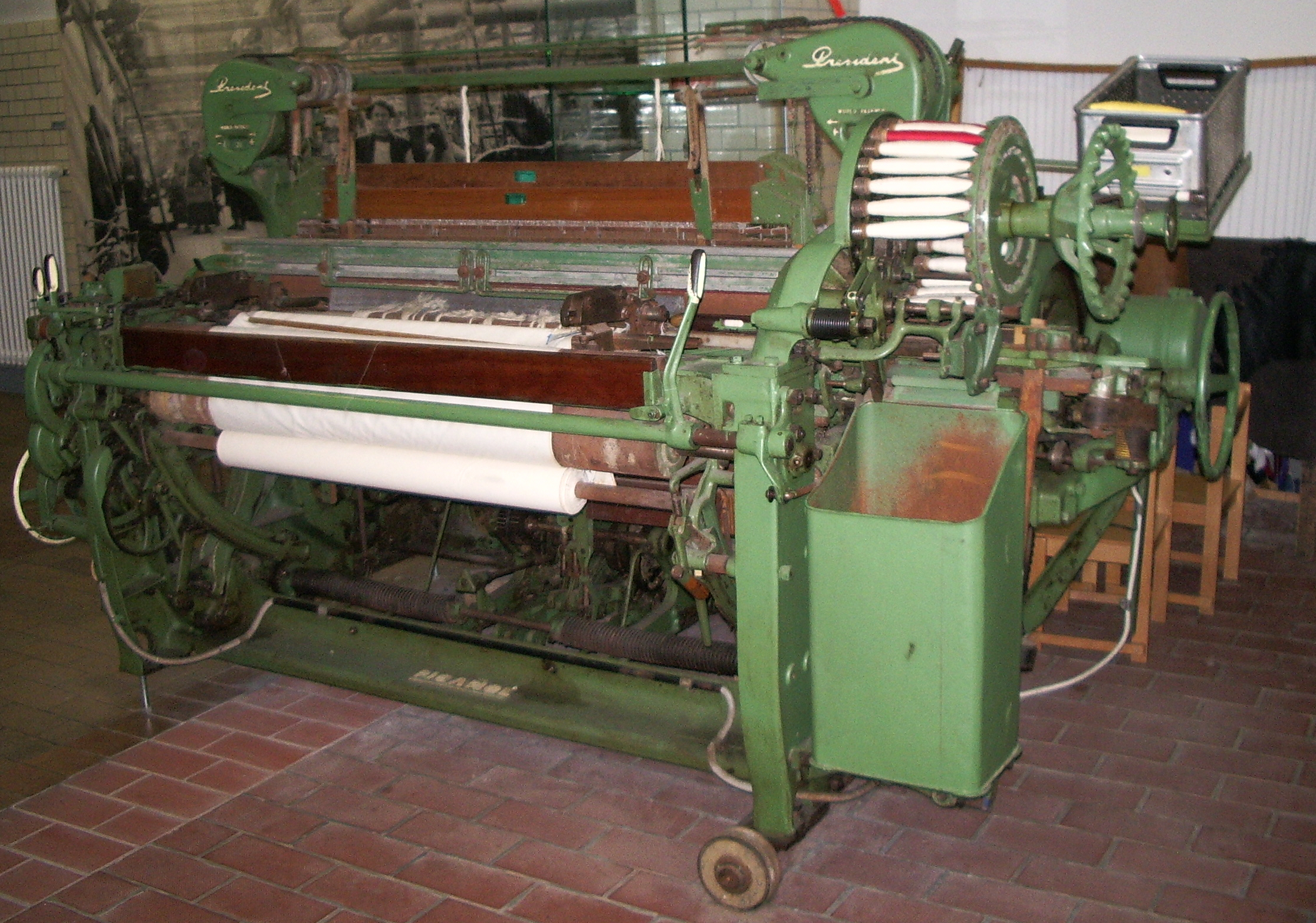 Looms, photographed in the Industrial Museum Elmshorn